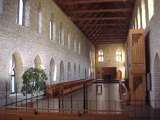 Chapel at New Melleray Abbey, Peosta, Iowa